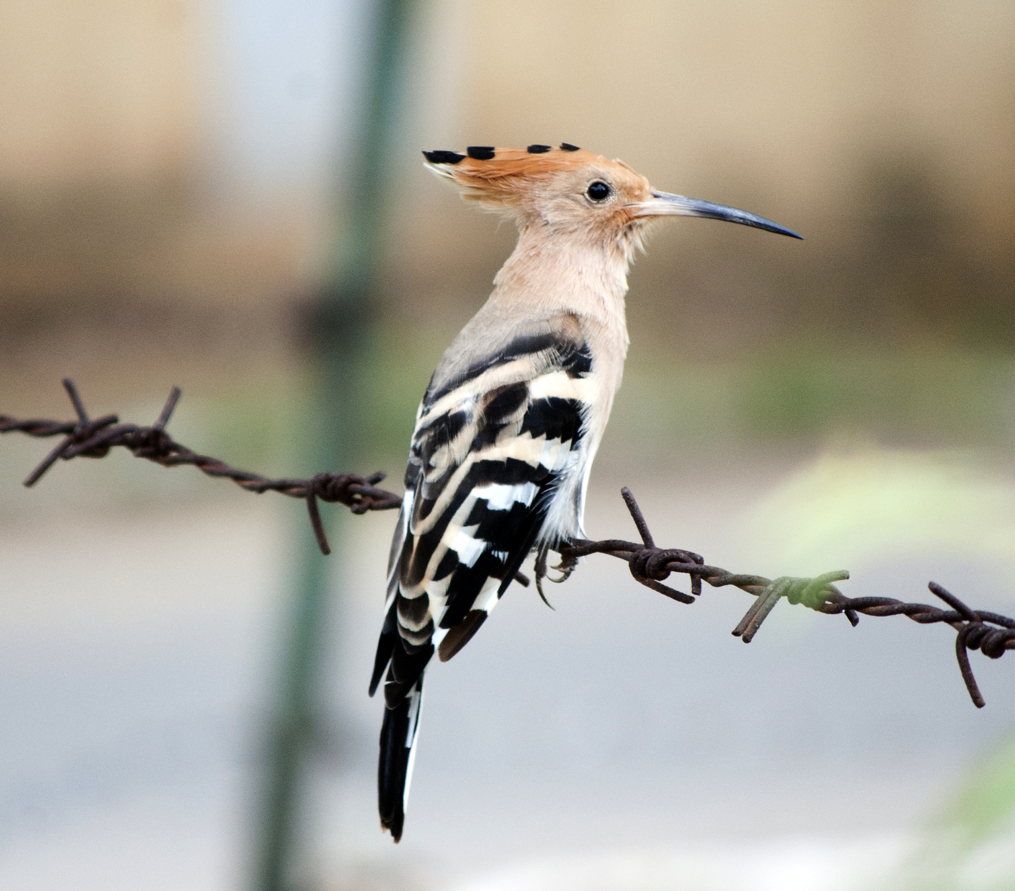 Upupa epops, India